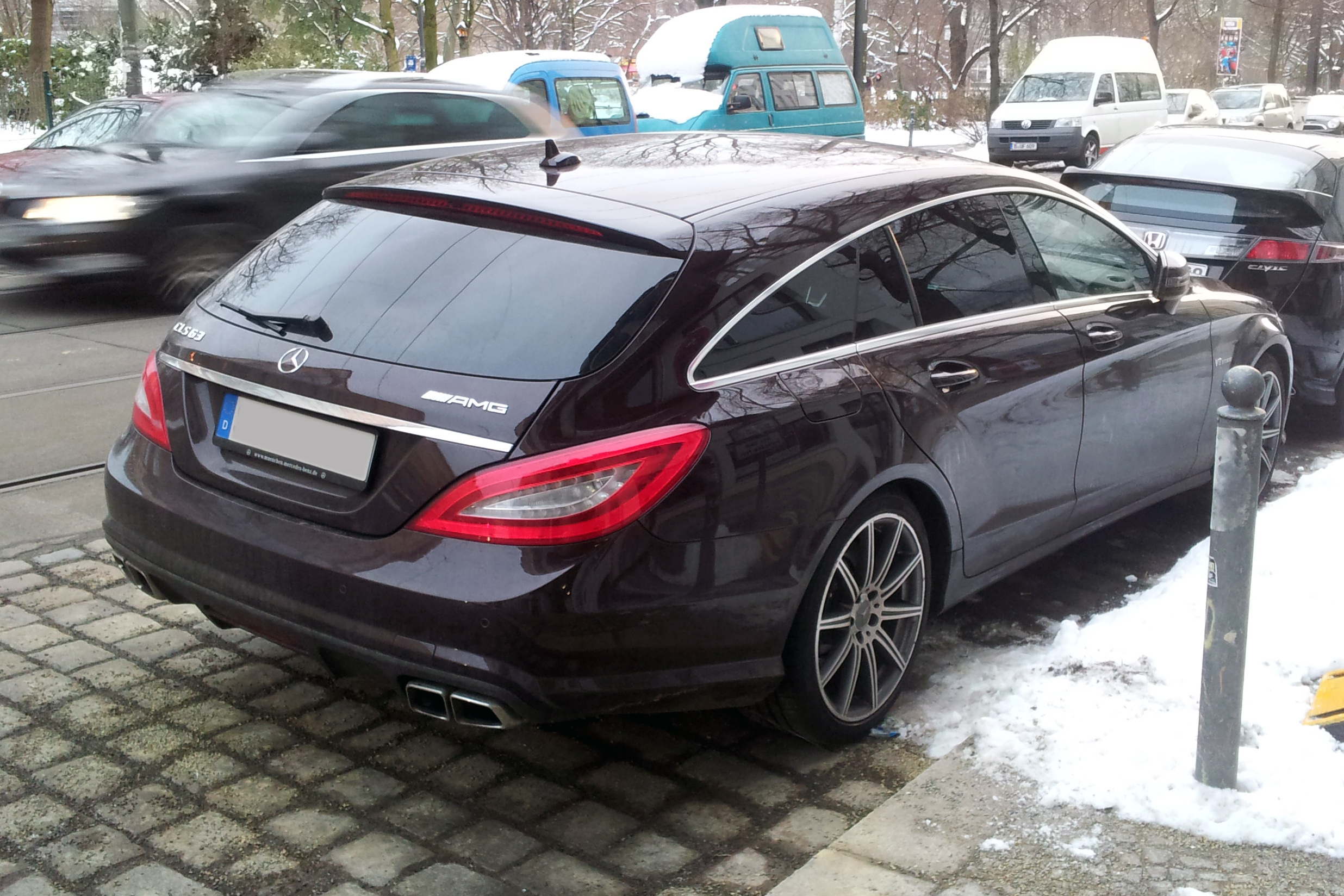 Mercedes-Benz CLS 63 AMG Shooting Brake